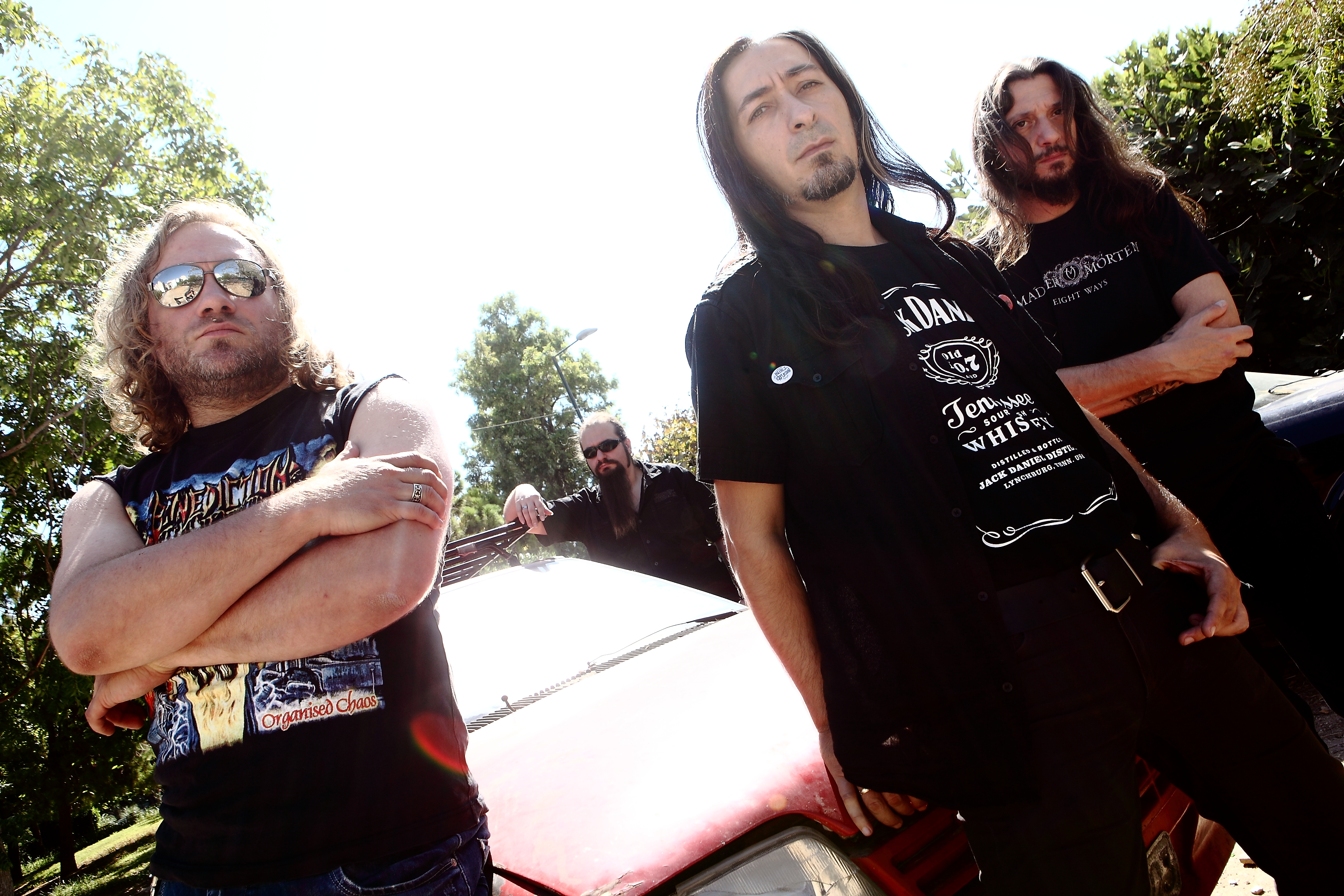 HATTIE GREEN (from left to right) : Rocky, N.R Janoes, Nikos K. ,Soiram